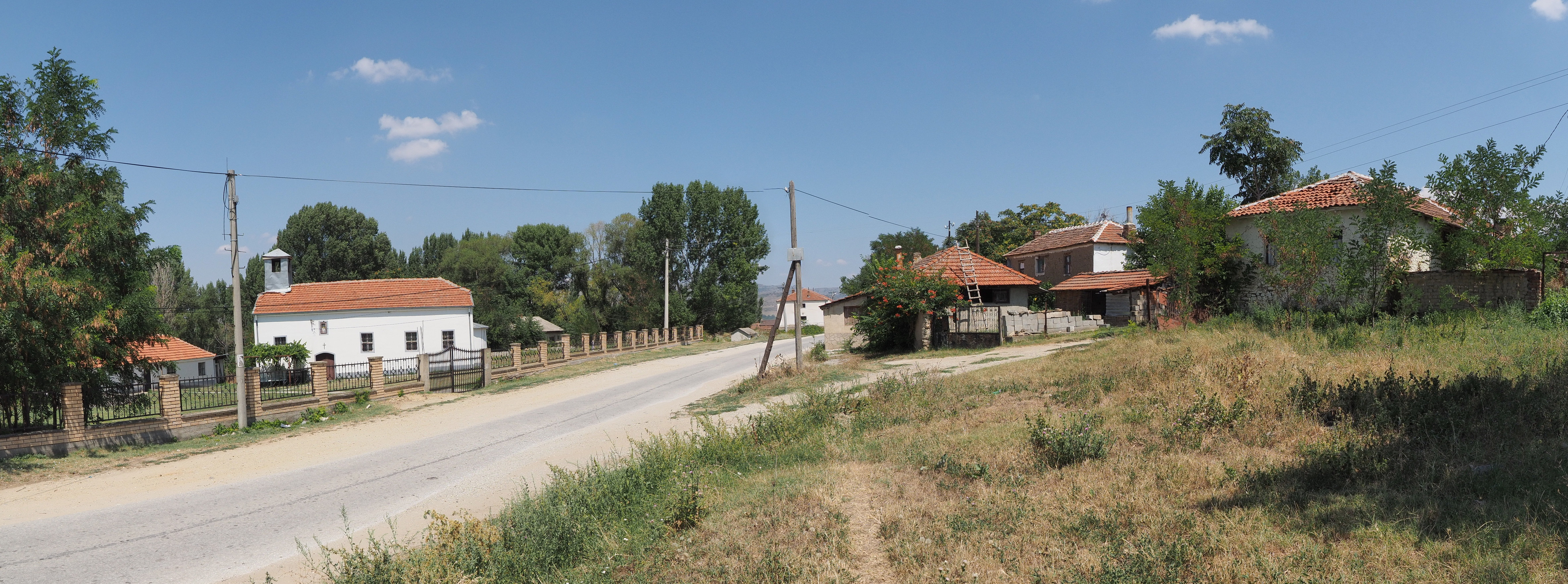 Bač village, Republic of Macedonia Српски (ћирилица): Село Бач, Македонија